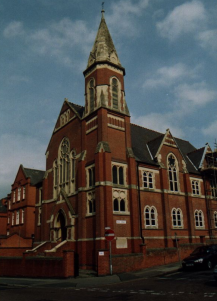 Melbourne Road, St Pauls Methodist Church, Leicester, United Kingdom. Architect Abraham Harrison Goodall. 1891